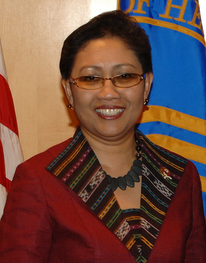 Secretary Sebelius with Indonesian Minister of Health, Dr. Endang Rahayu Sedyaningsih, on Tuesday April 13th, 2010. HHS Photo by Chris Smitih